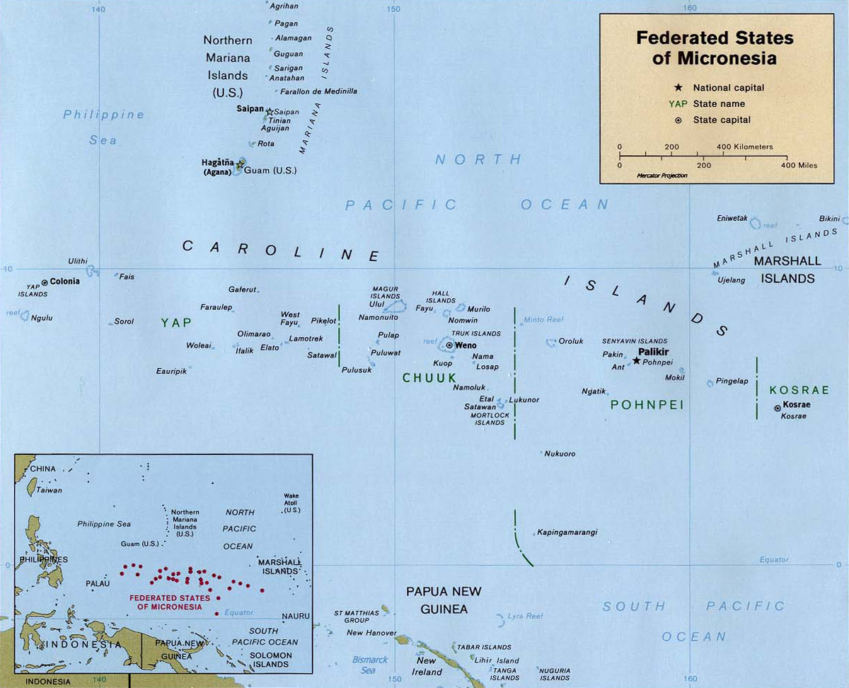 Map of the Federated States of Micronesia — in the Micronesia regon.